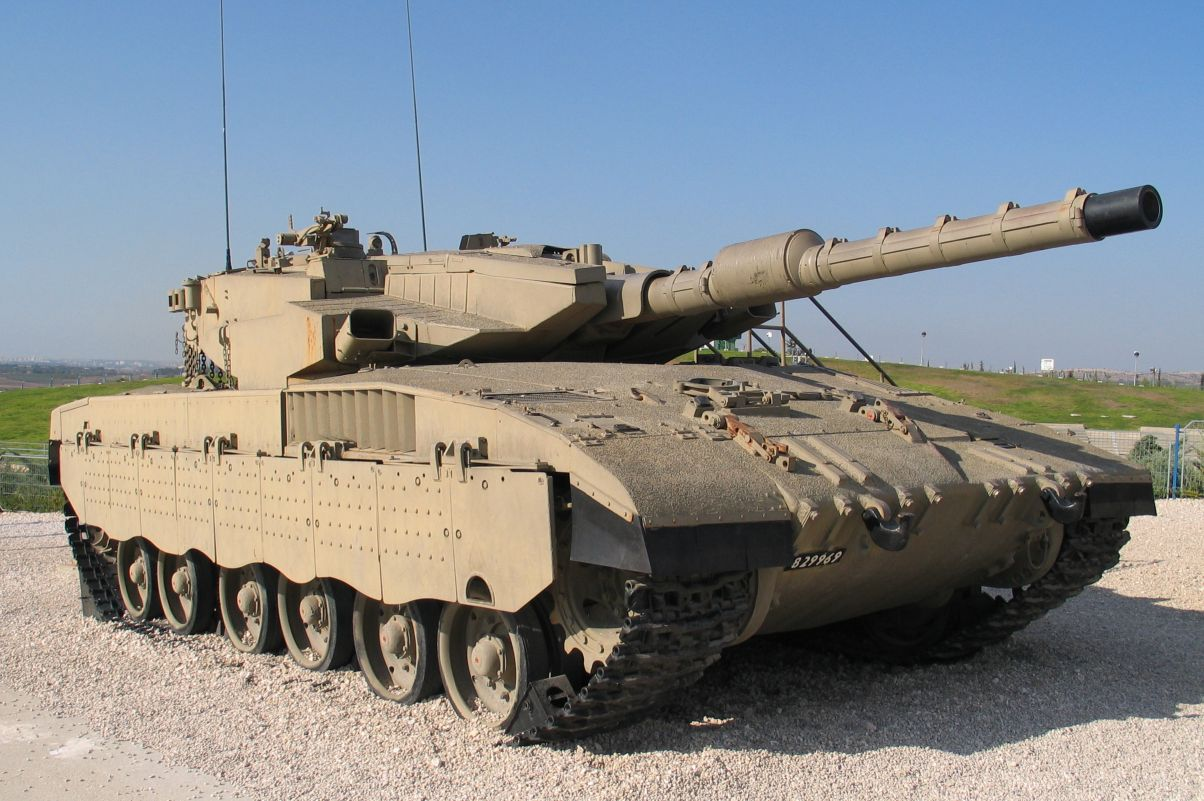 Description: Israeli Merkava Mk III MBT in Yad la-Shiryon Museum, Israel. 2005. Source: Photo by me, User:Bukvoed.